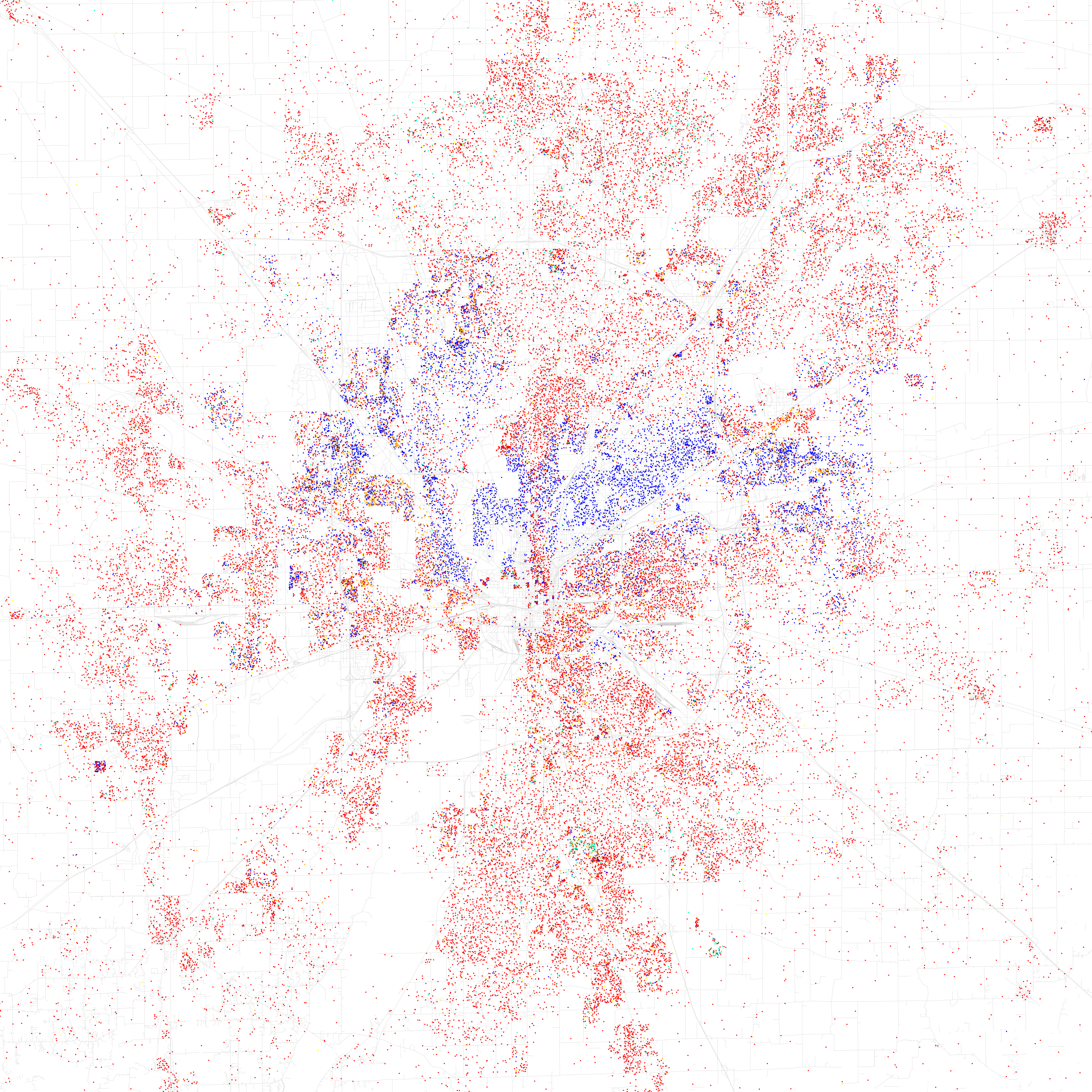 Maps of racial and ethnic divisions in US cities, inspired by Bill Rankin's map of Chicago, updated for Census 2010. Red is White, Blue is Black, Green is Asian, Orange is Hispanic, Yellow is Other, and each dot is 25 residents. Data from Census 2010. Base map © OpenStreetMap, CC-BY-SA